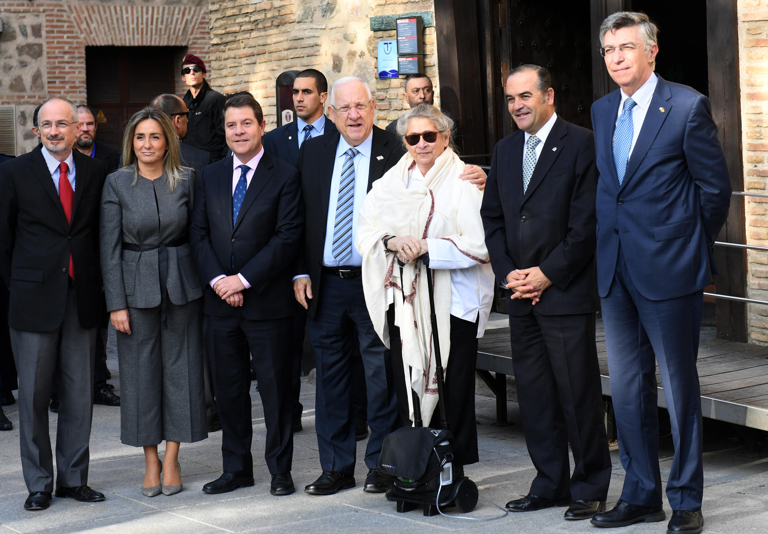 President of the State of Israel, Reuven Rivlin, in the city of Toledo and during a visit to the city's oldest synagogue. Wednesday, November 8, 2017. Photo credit: Haim Zach / GPO.